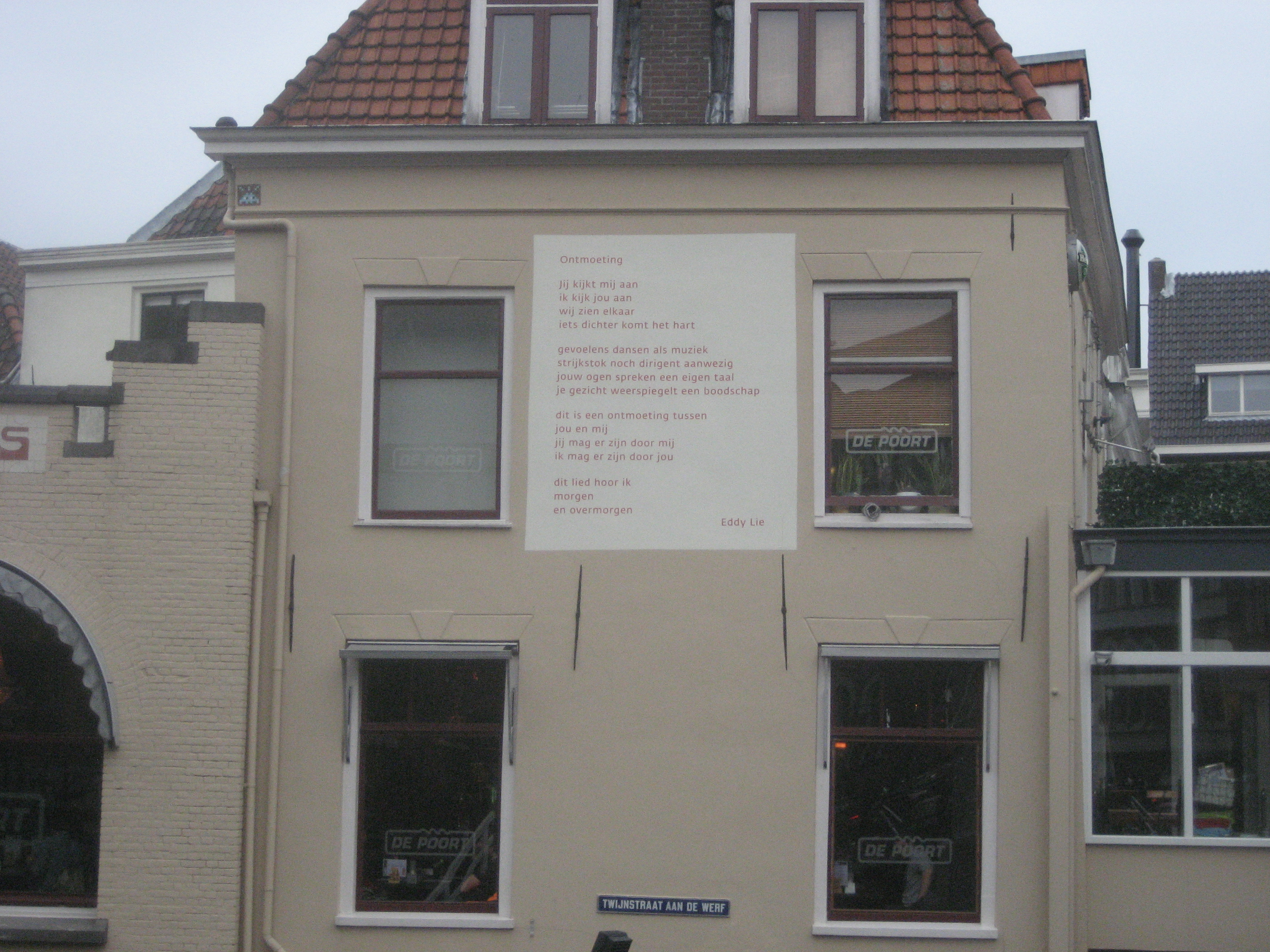 Wall poem 'Ontmoeting' in Twijnstraat aan de Werf, Utrecht. Poet: Eddy Lie